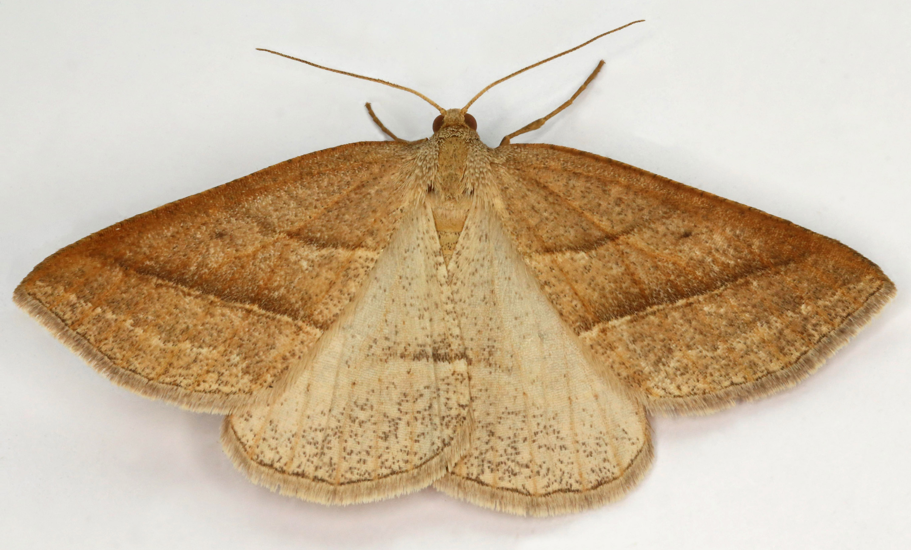 Petrophora chlorosata, Brown Silver-line, Trawscoed, North Wales, May 2017